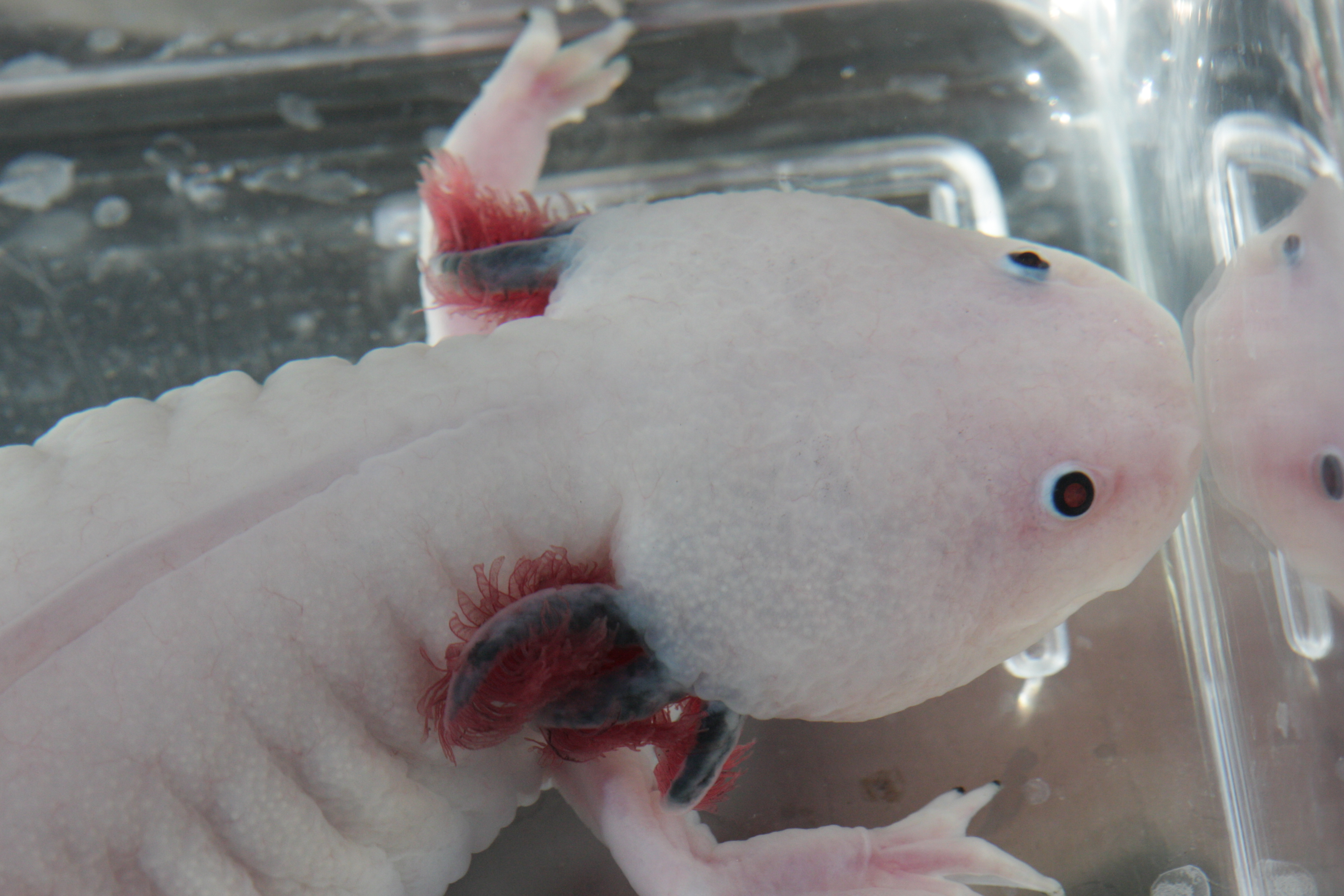 Leucistic female Axolotl from behind